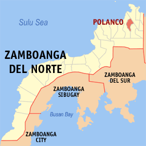 Map of the Zamboanga del Norte showing the location of Polanco